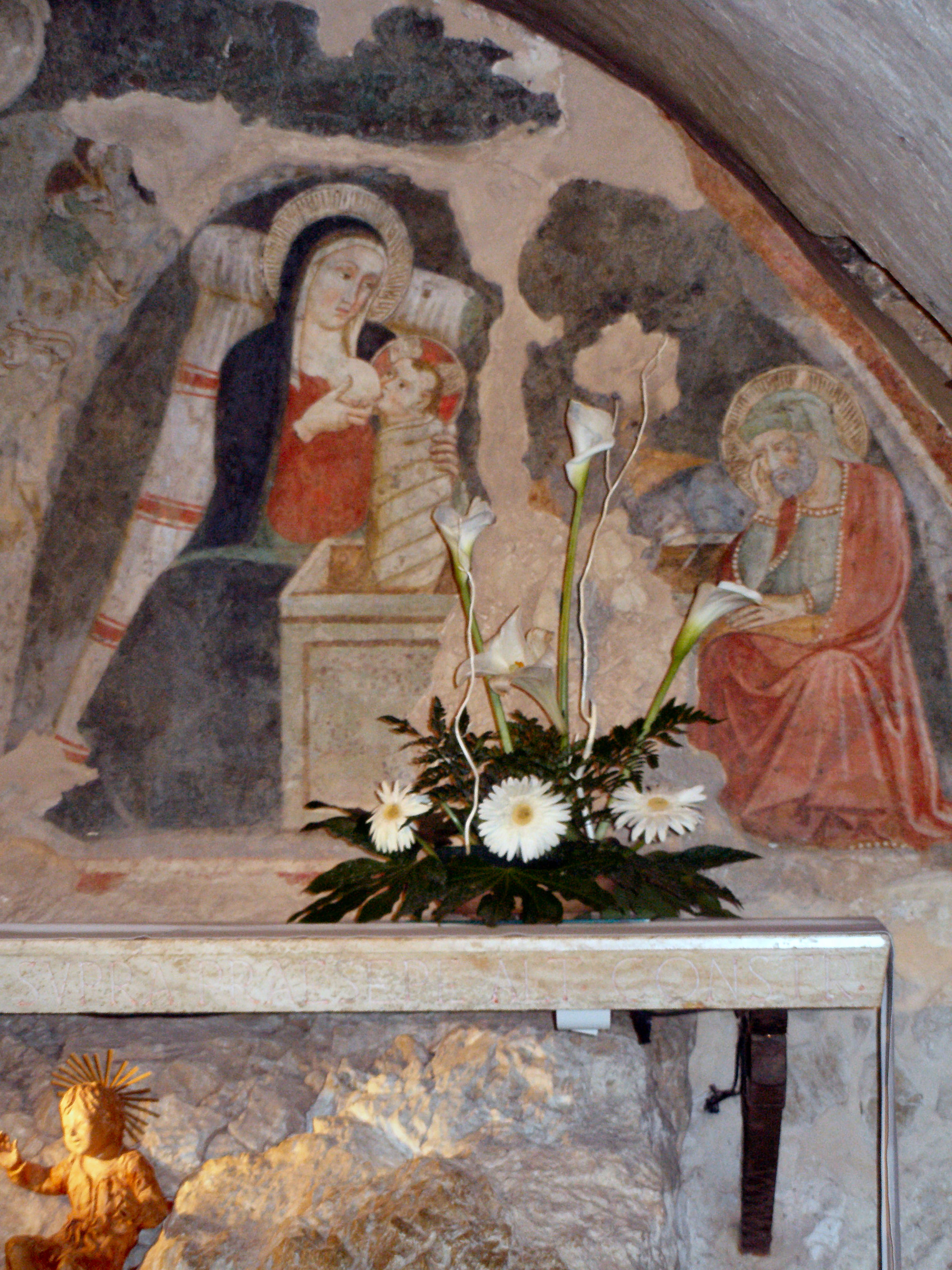 Saint Francis institutes the Christmas Crib. Virgin Mary breastfeeding a swaddled Baby Jesus.